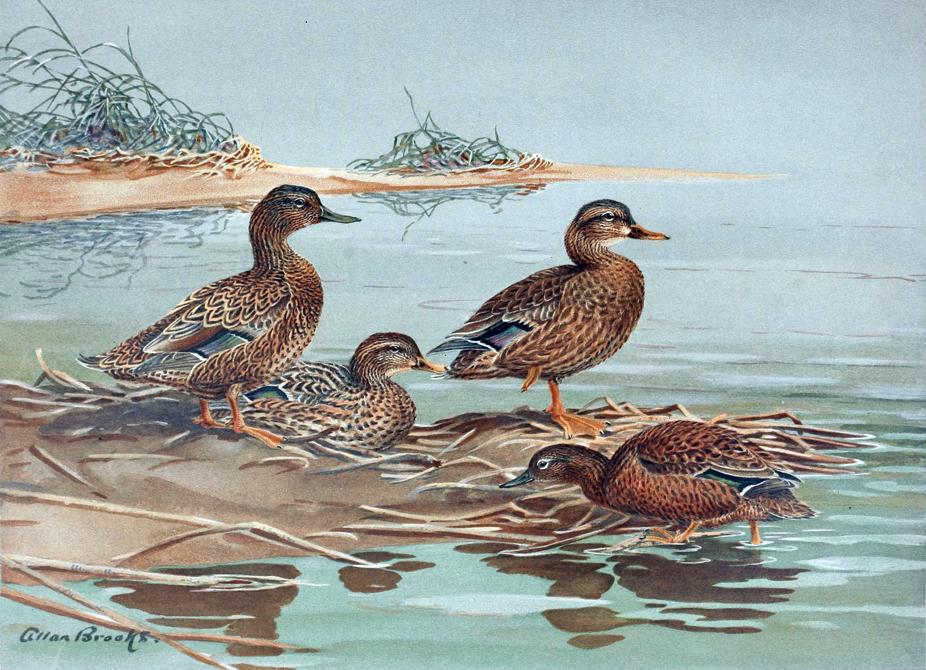 Hawaiian duck (male and female), Oustalet's Gray Duck (Anas oustaleti), and Laysan teal. From A natural history of the ducks. Volume.II. The Genus Anas By John C. Phillips Associate curator of birds in the Museum of Comparative Zoology at Harvard College with plates in color and in black and white from drawings Frank W. Benson, Allan Brooks, Louis Agassiz Fuertes and Henrik Grönvold.